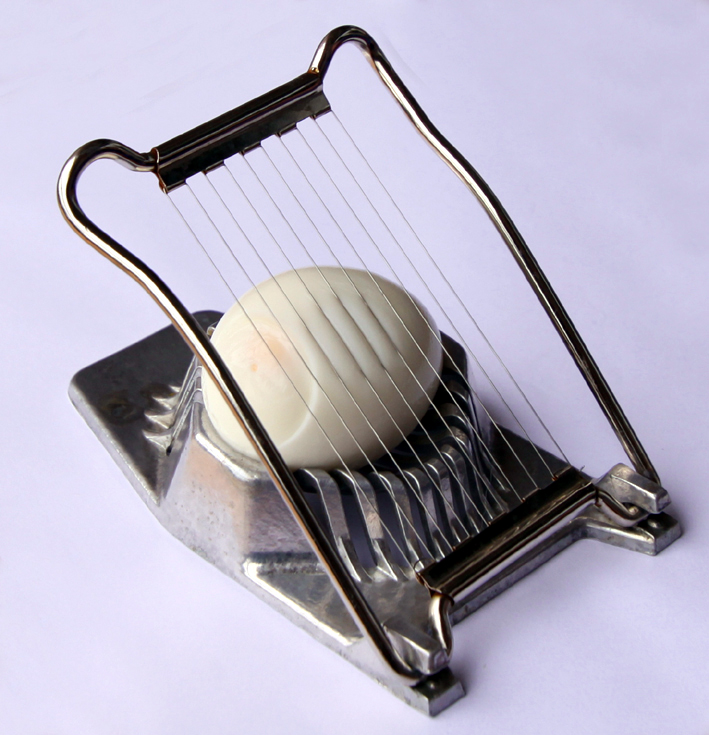 Vintage 2-way egg-slicer made by Westmark